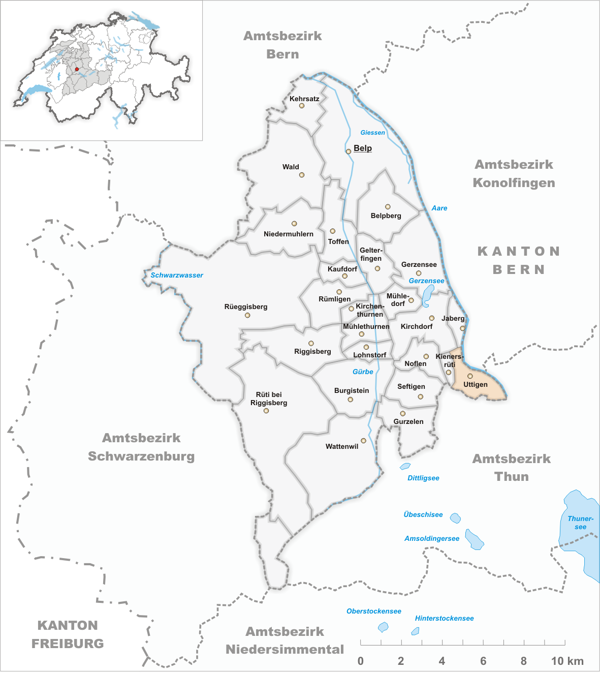 Municipality Uttigen